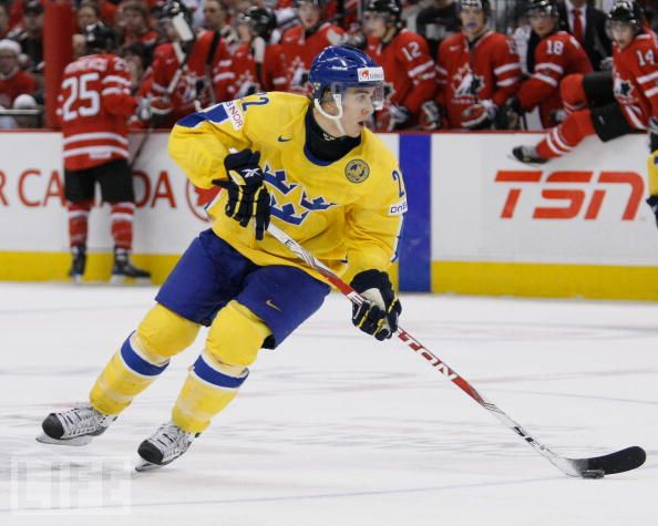 Mikael Backlund #22 of Team Sweden skates with the puck against Team Canada during the gold medal game of the IIHF World Junior Ice Hockey Championship at Scotiabank Place in Ottawa, Ontario, Canada on January 05, 2009. Canadian players in the background.